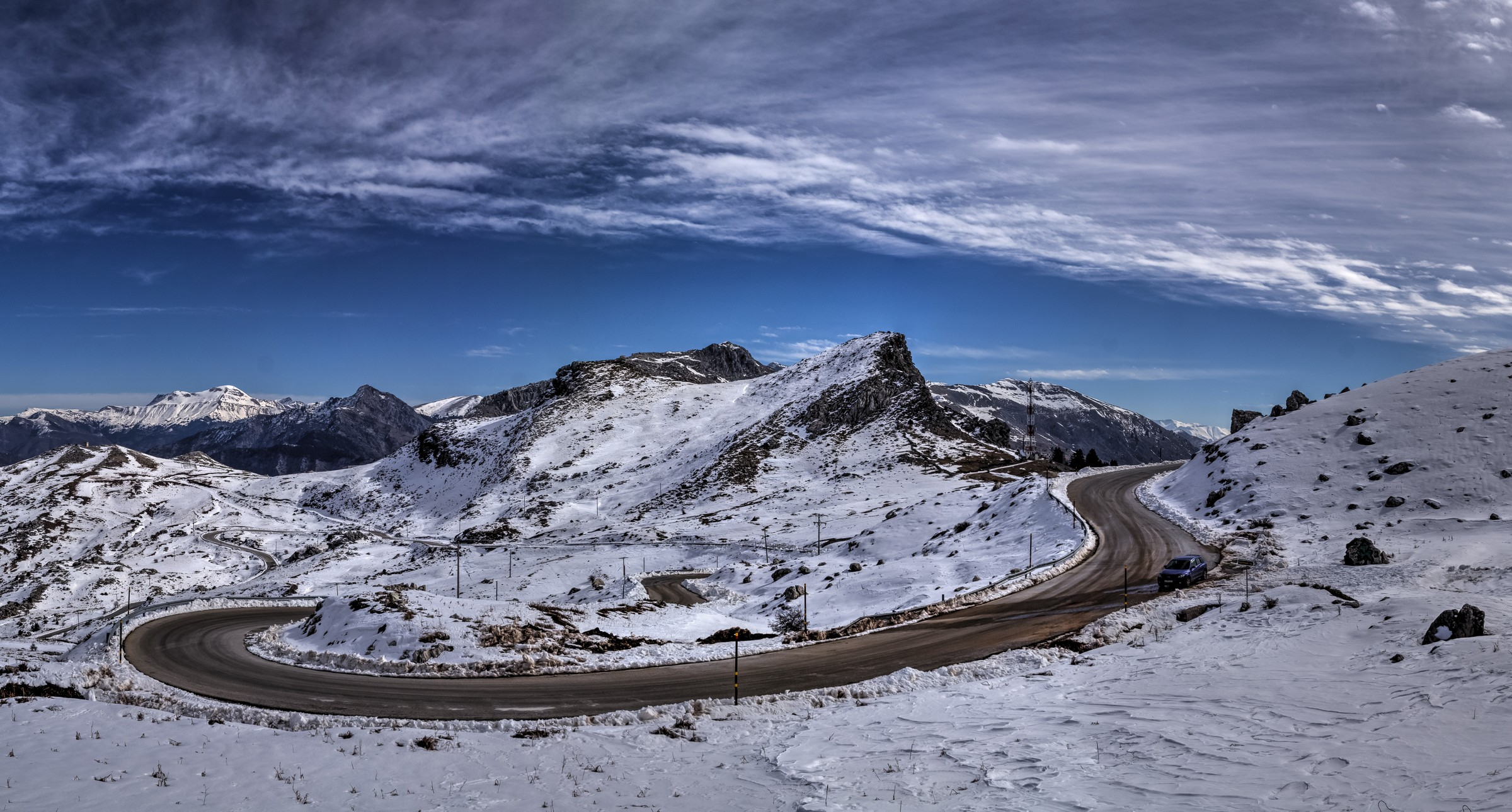 This is a photography of Natura 2000 protected area with ID GR2110002